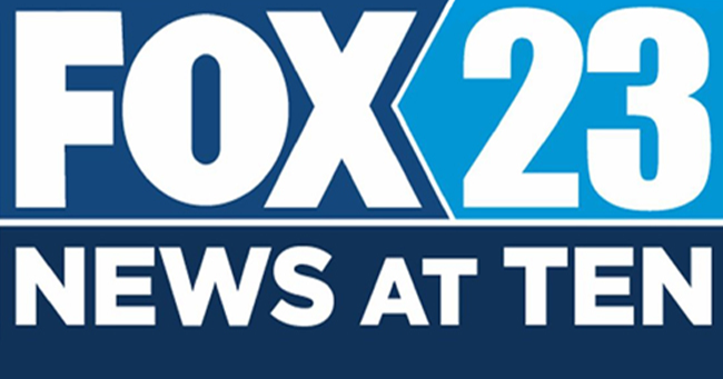 Logo of the newscast programming News At Ten on the television channel WPFO.